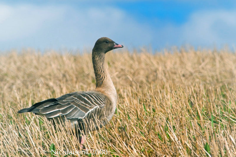 Pink-footed goose